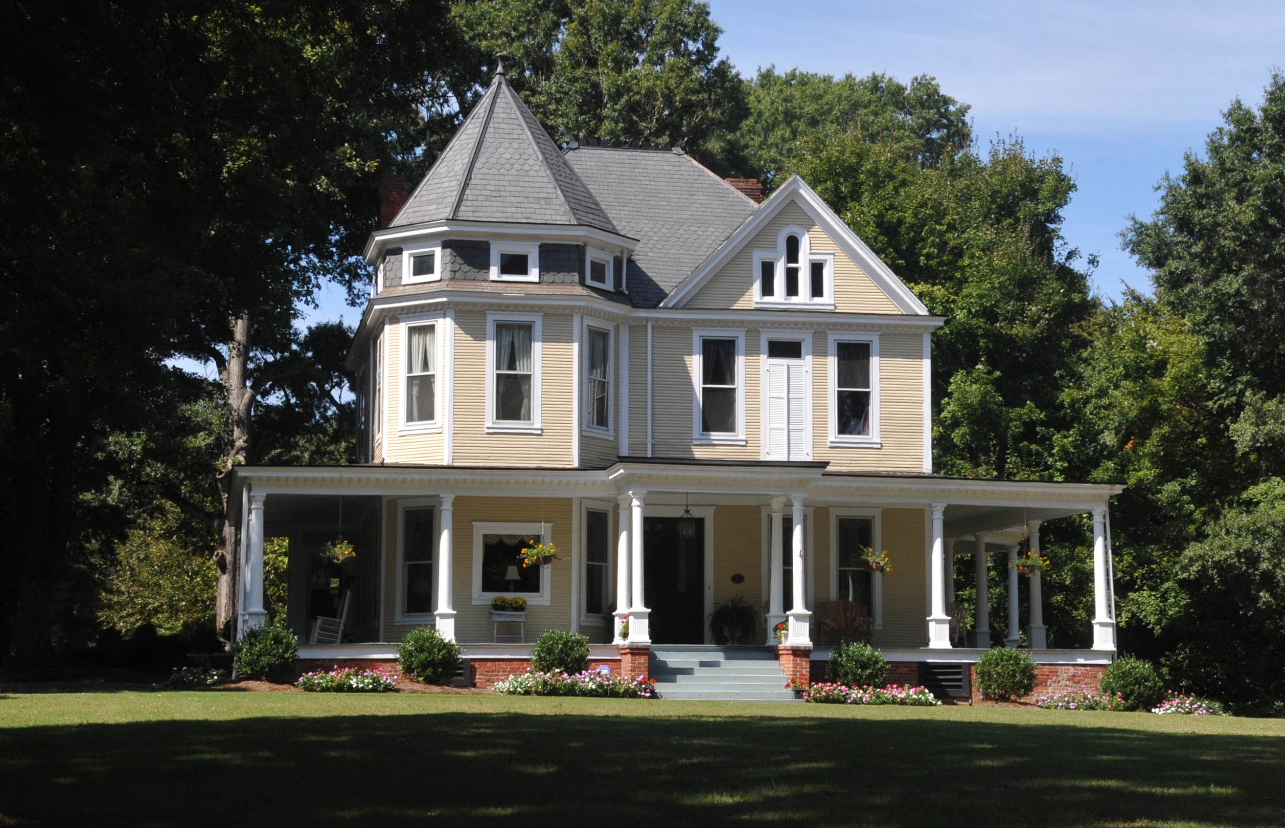 O.P. HEATH HOUSE; CIRCA 1897; LATE QUEEN ANNE STYLE